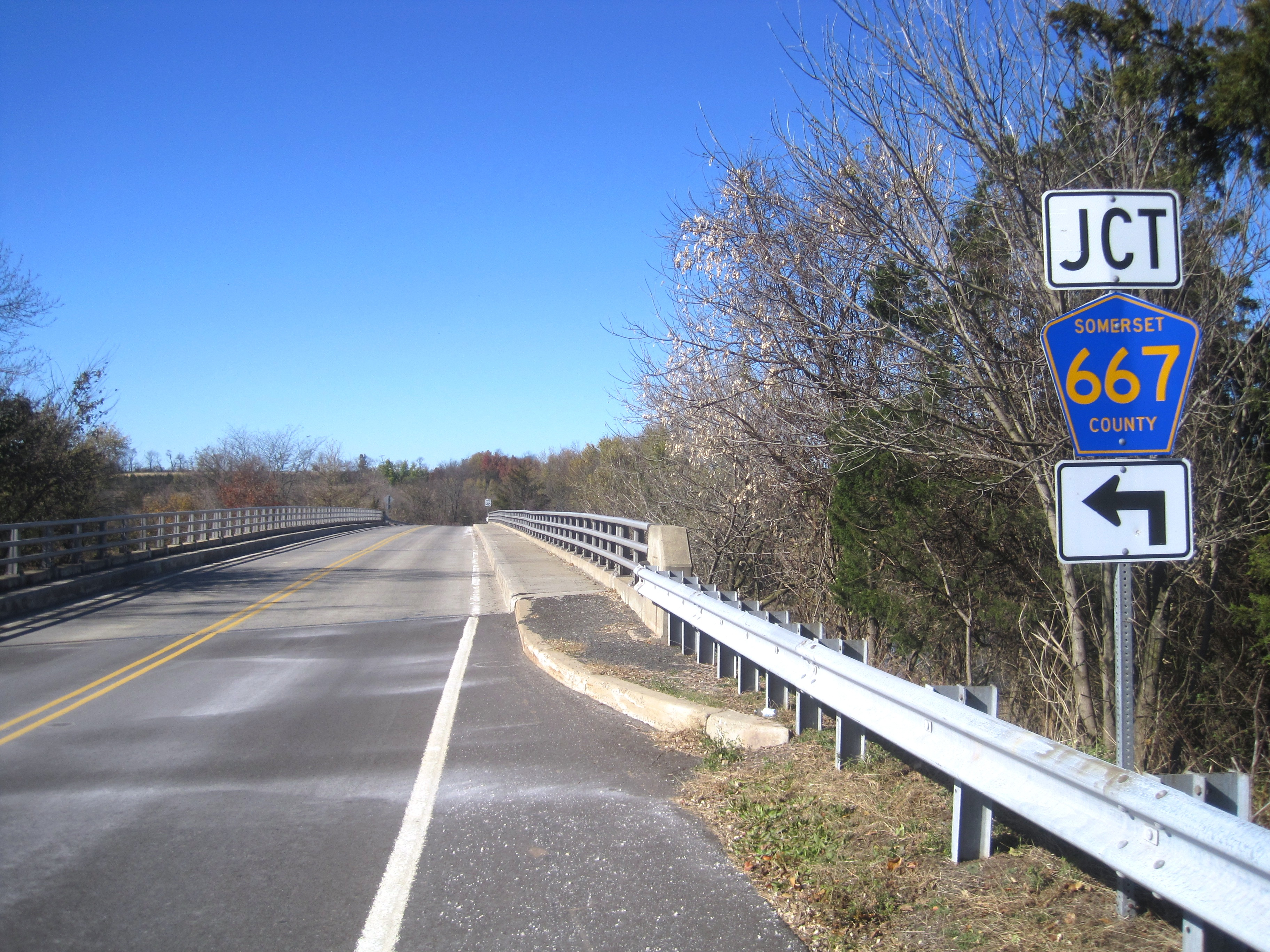 Photo showing northbound County Route 567 crossing over the South Branch Raritan River in Hillsborough Township, New Jersey. CR 667's northern terminus is located after the bridge.